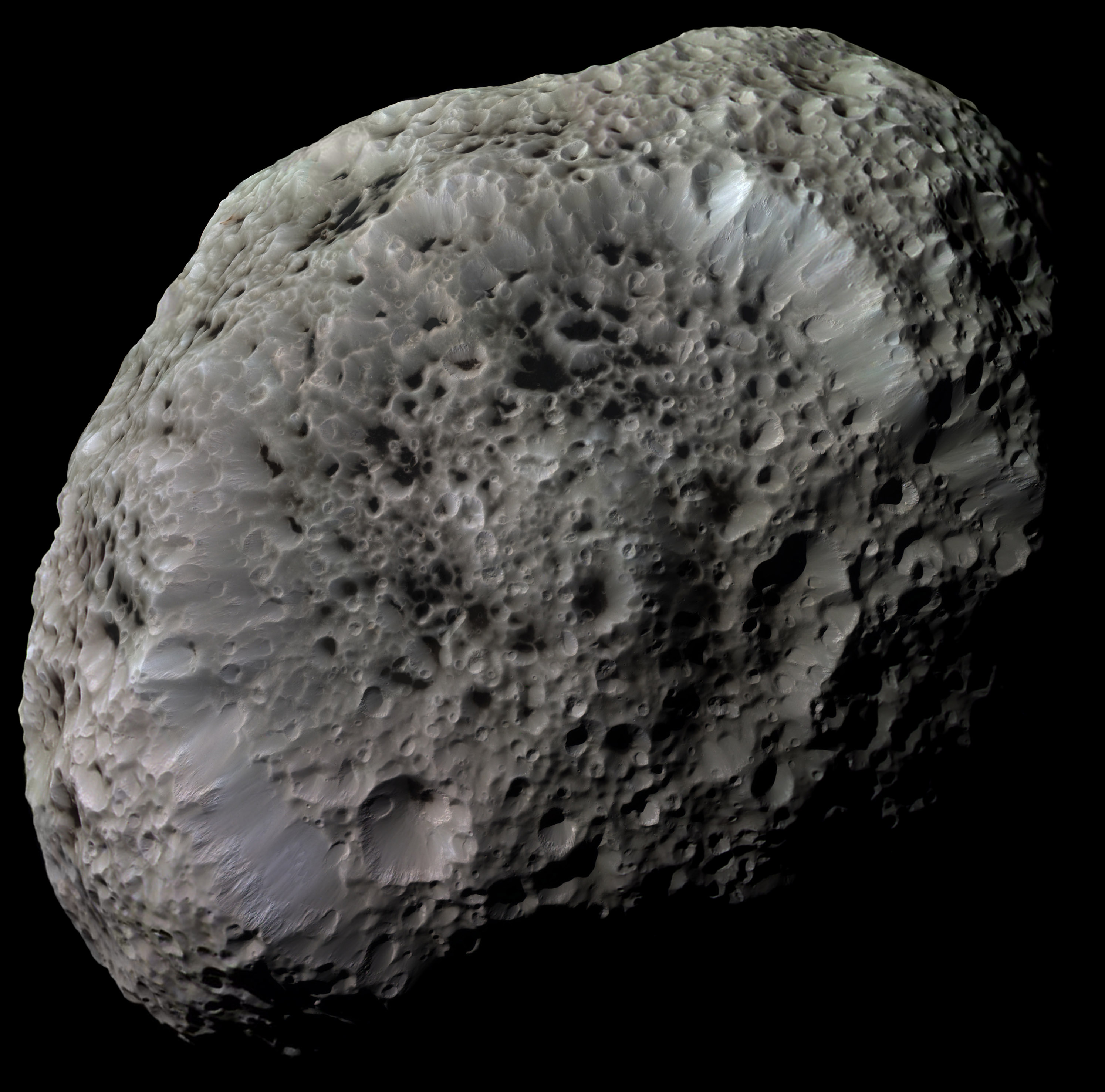 Hyperion, a moon of Saturn, is one of the largest highly irregular (non-spherical) bodies in the solar system. Enhanced image processing was used to bring out details and color differences in this photo taken by the Cassini spacecraft. Hyperion is entirely saturated with deep, sharp-edged craters that give it the appearance of a giant sponge. Dark material fills the bottom of each crater.